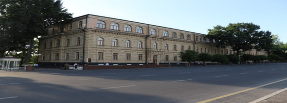 Tashkent State Unversity of Law